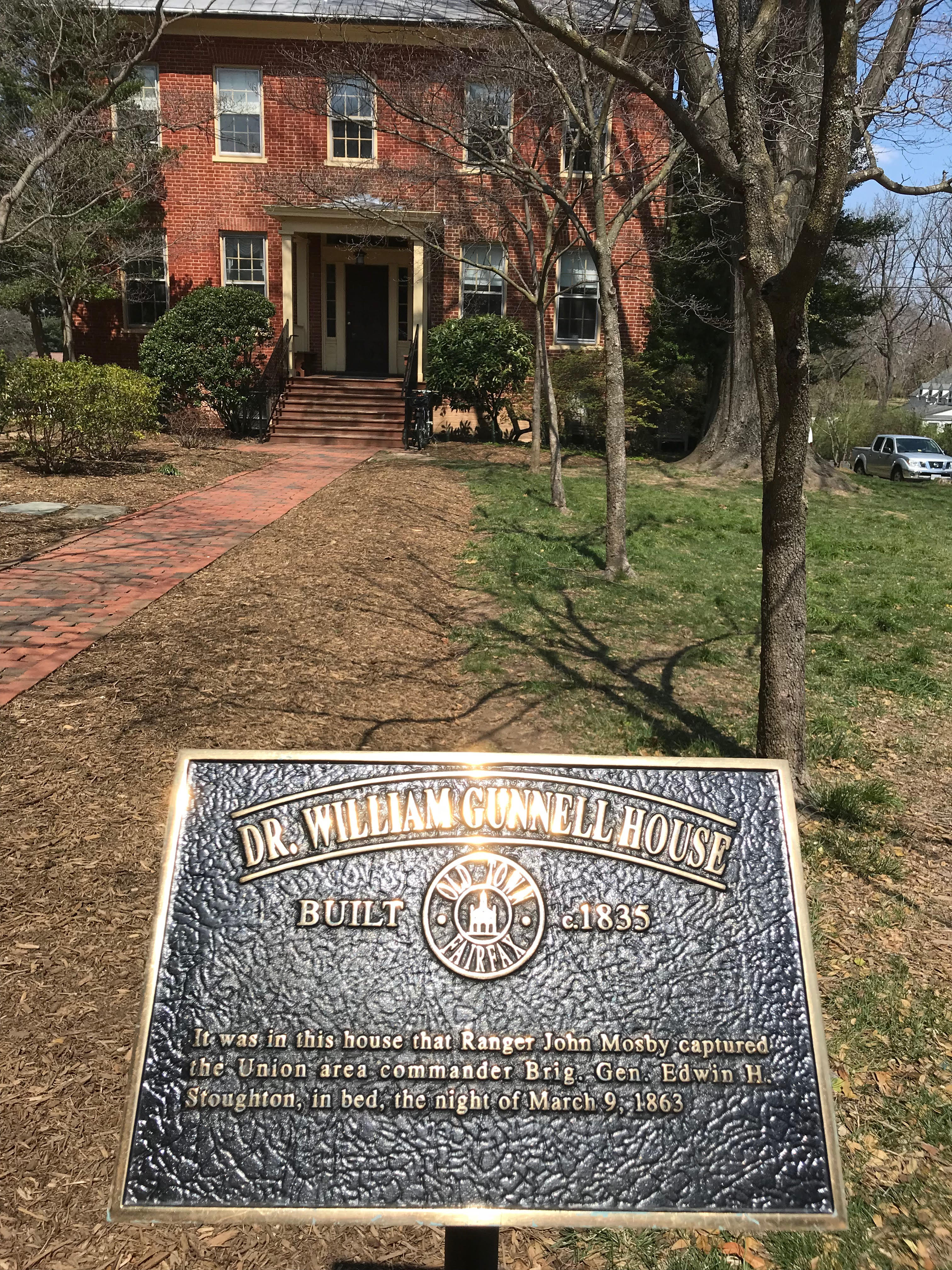 Front view of the William Gunnel House where John Mosby Captured BG Edwin Stoughton on March 9, 1863